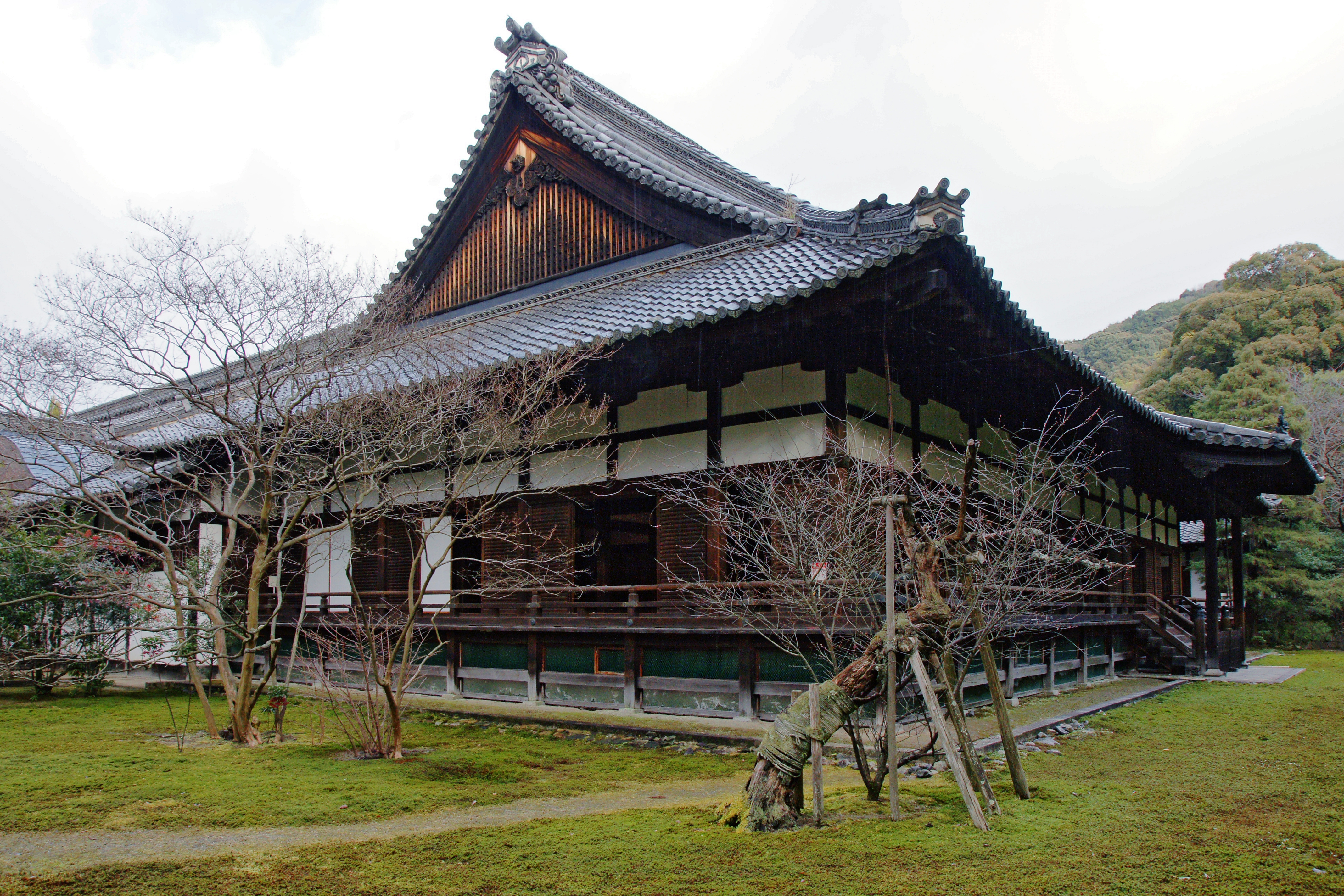 Shōren-in, Kyoto, Kyoto Prefecture, Japan